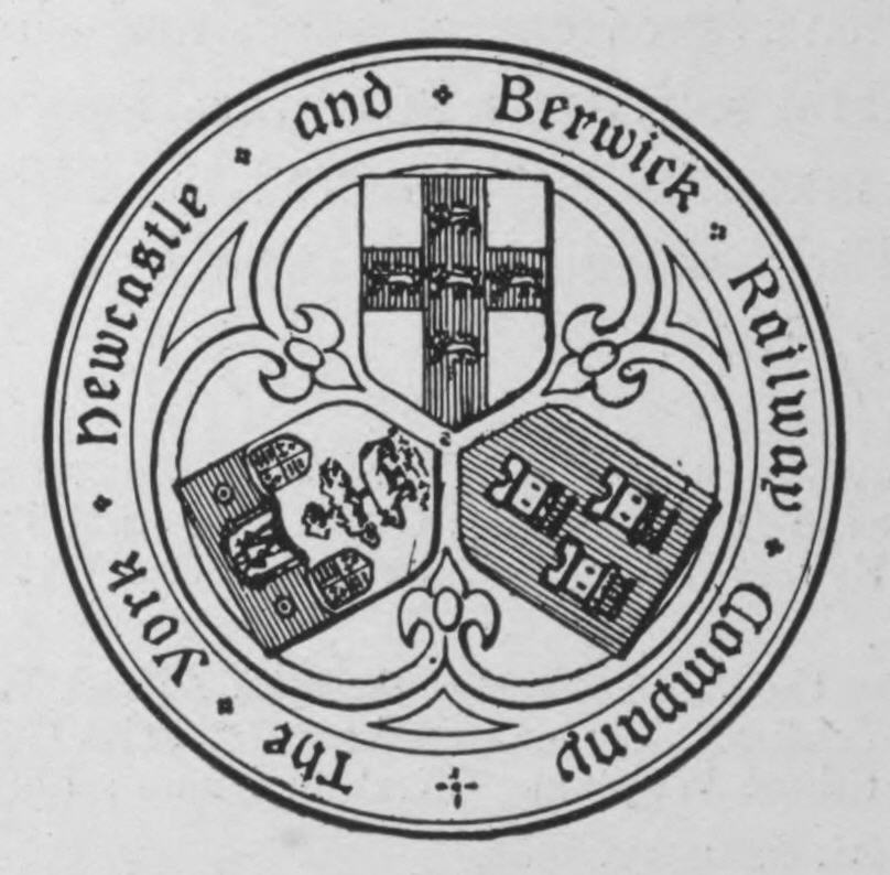 The seal of the York, Newcastle and Berwick Railway, an early English railway company